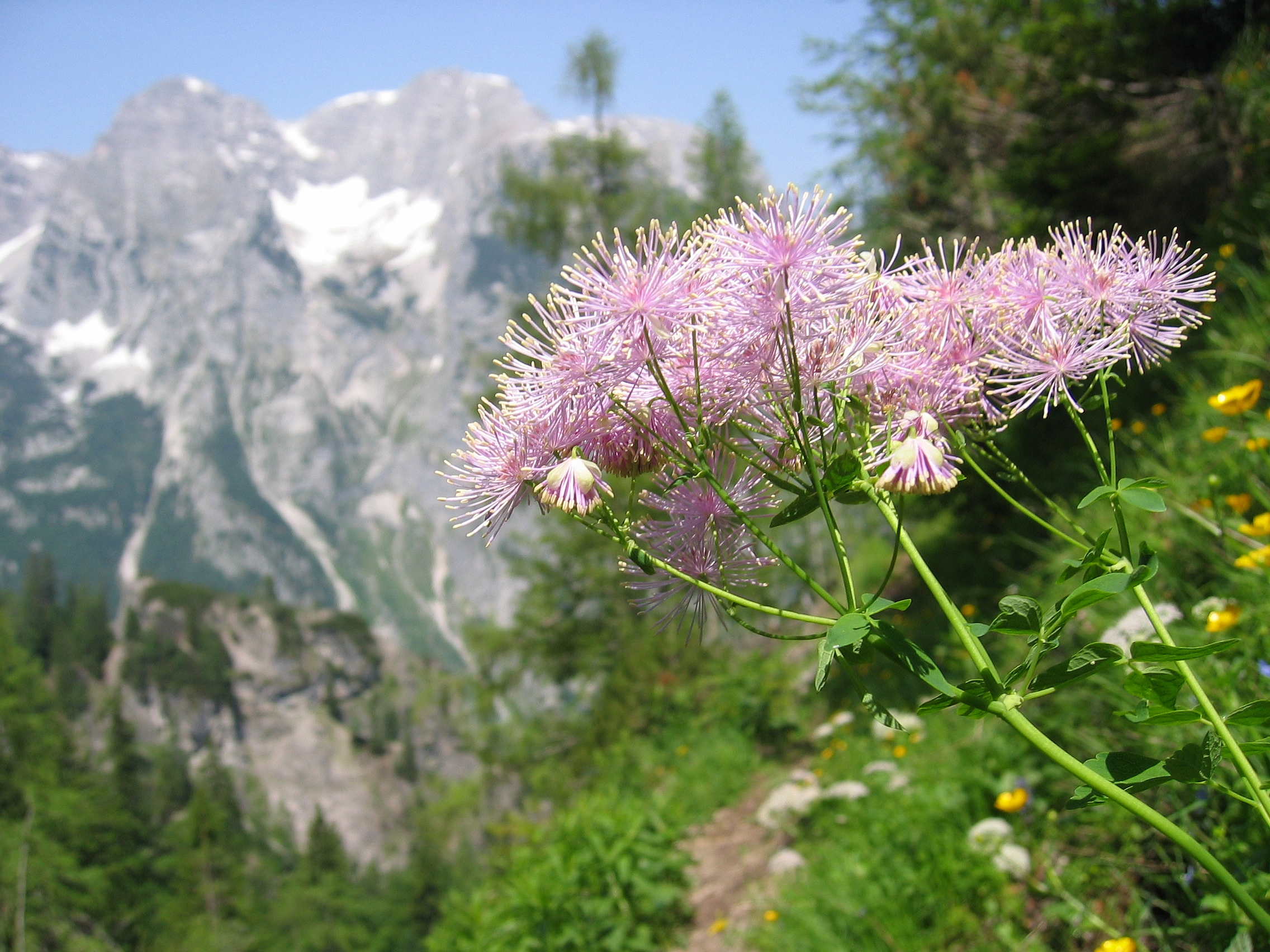 Thalictrum aquilegifolium, Hinterstoder, Upper Austria, Austria.